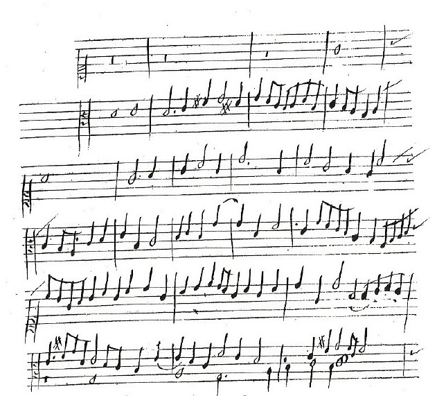 Frist staves of the Fantasie by Charles Racquet, c. 1636, included in Mersenne's copy of this Harmonie Universelle, 1636.